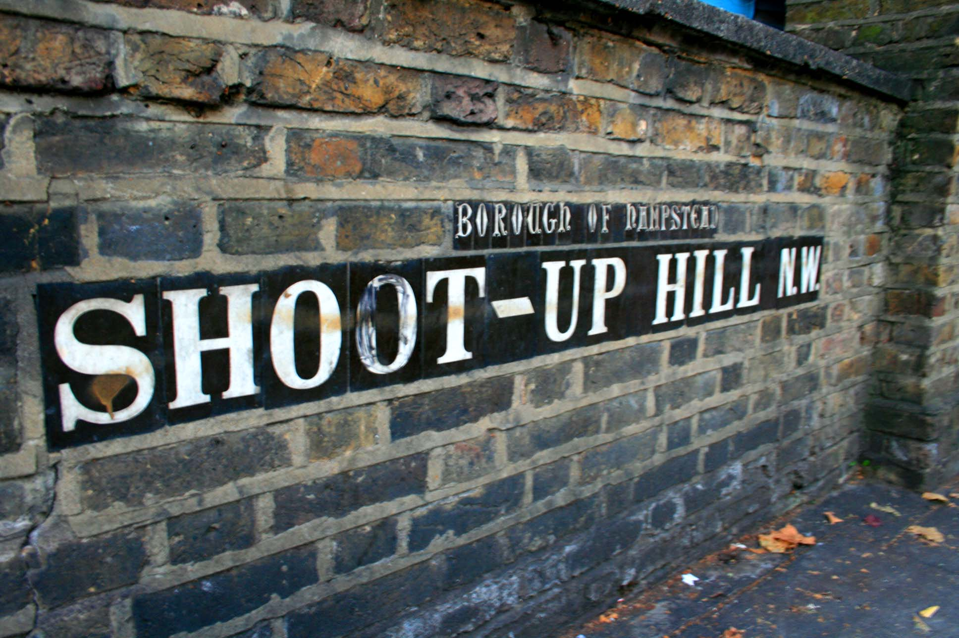 A heritage road sign made of ceramic letters, in Kilburn, London, UK